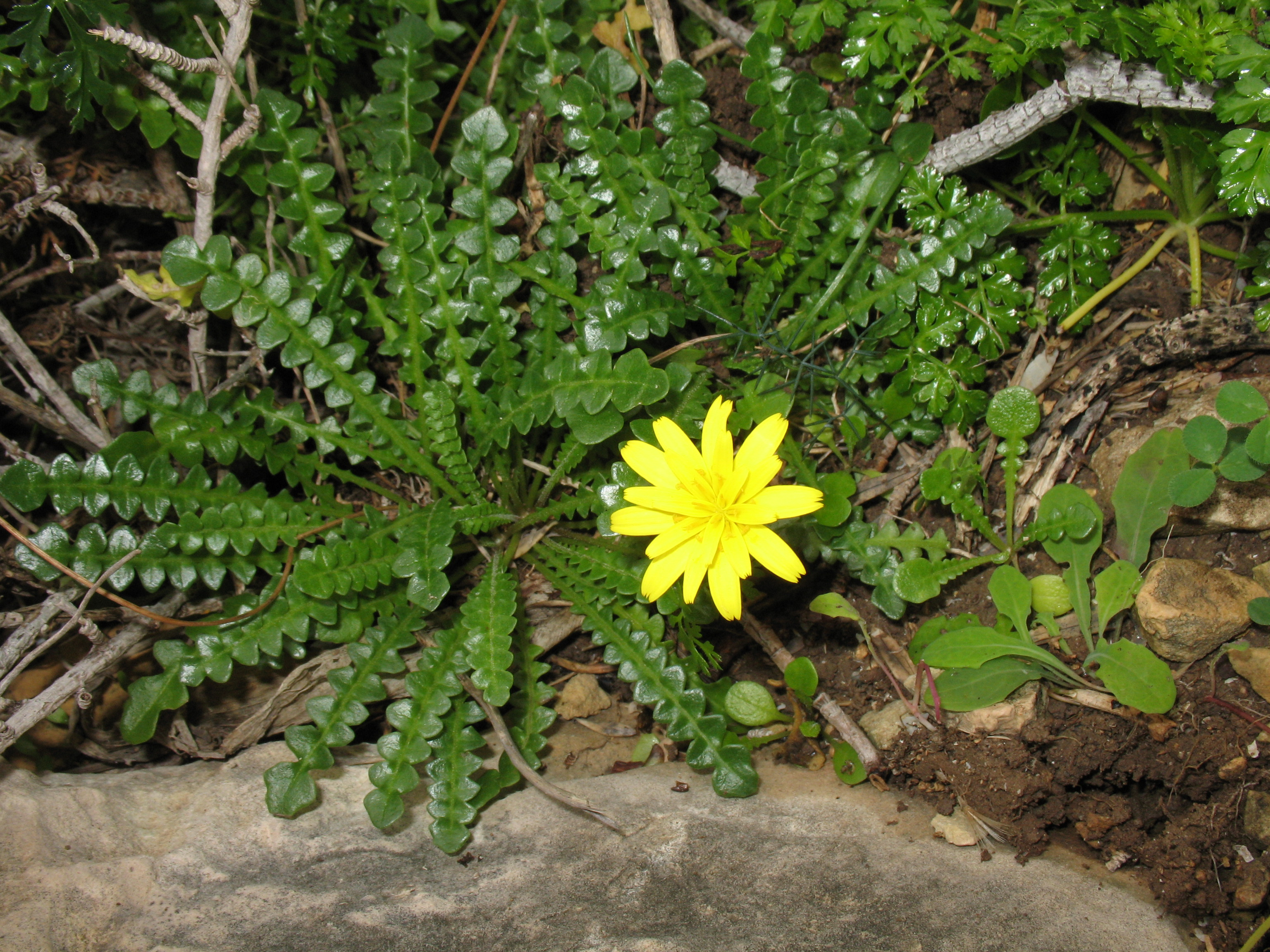 This species forms long leaves with leaf lobs in a zig-zag looking fashion. Flowers yellow, non-fragrant, consisting of a composite of 20-30 ray-florets ('petals').